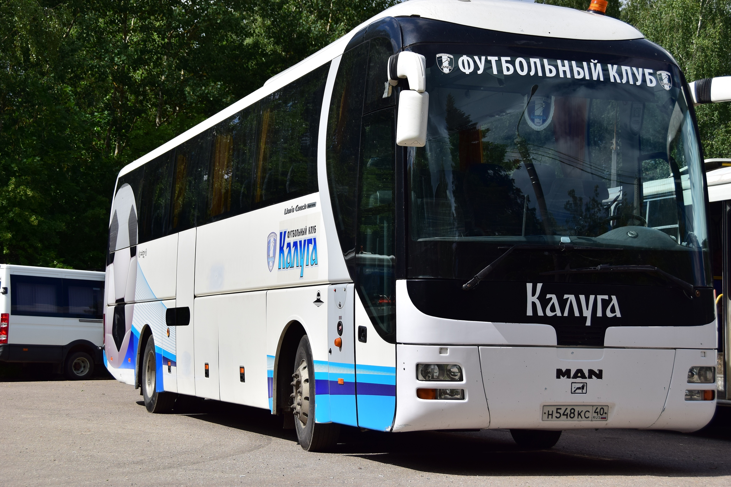 FC Kaluga`s bus. 2019